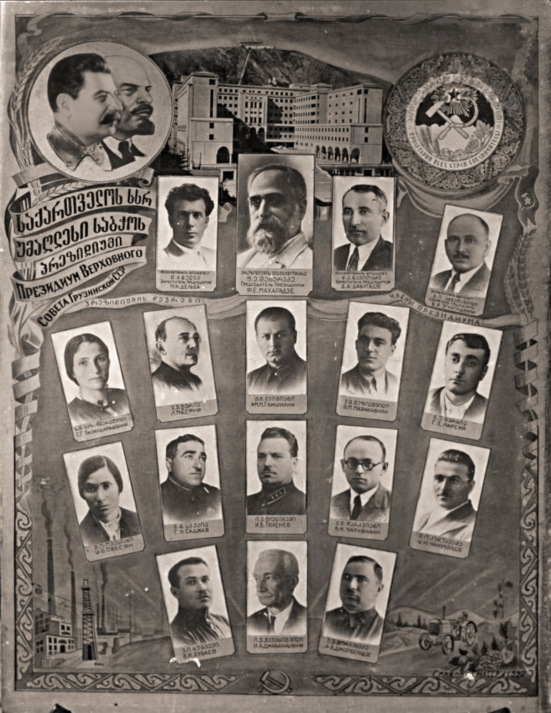 Presidium of the Supreme Council of the first convocation of the Georgian SSR.